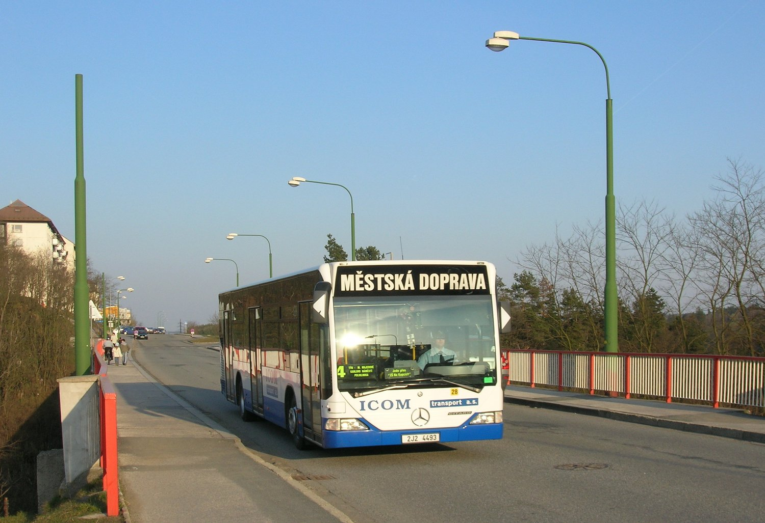 Traction poles ... remains of the trolleybus project in Třebíč (never realized)